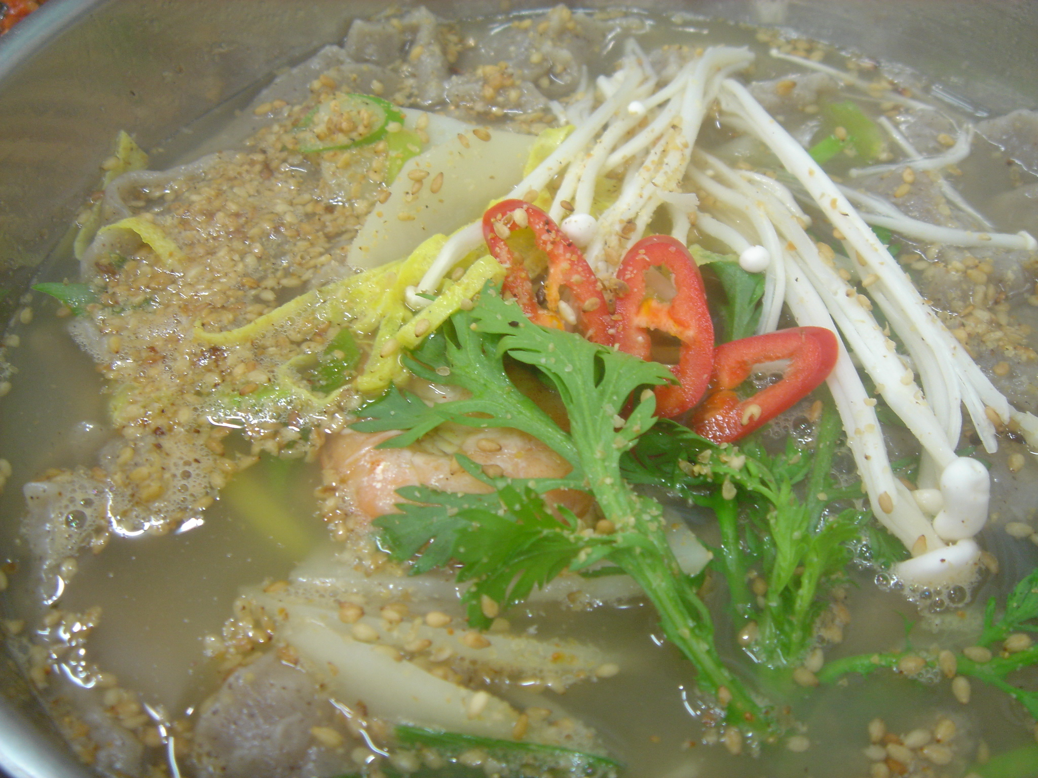 Memiljeon, Korean buckwheat noodle soup